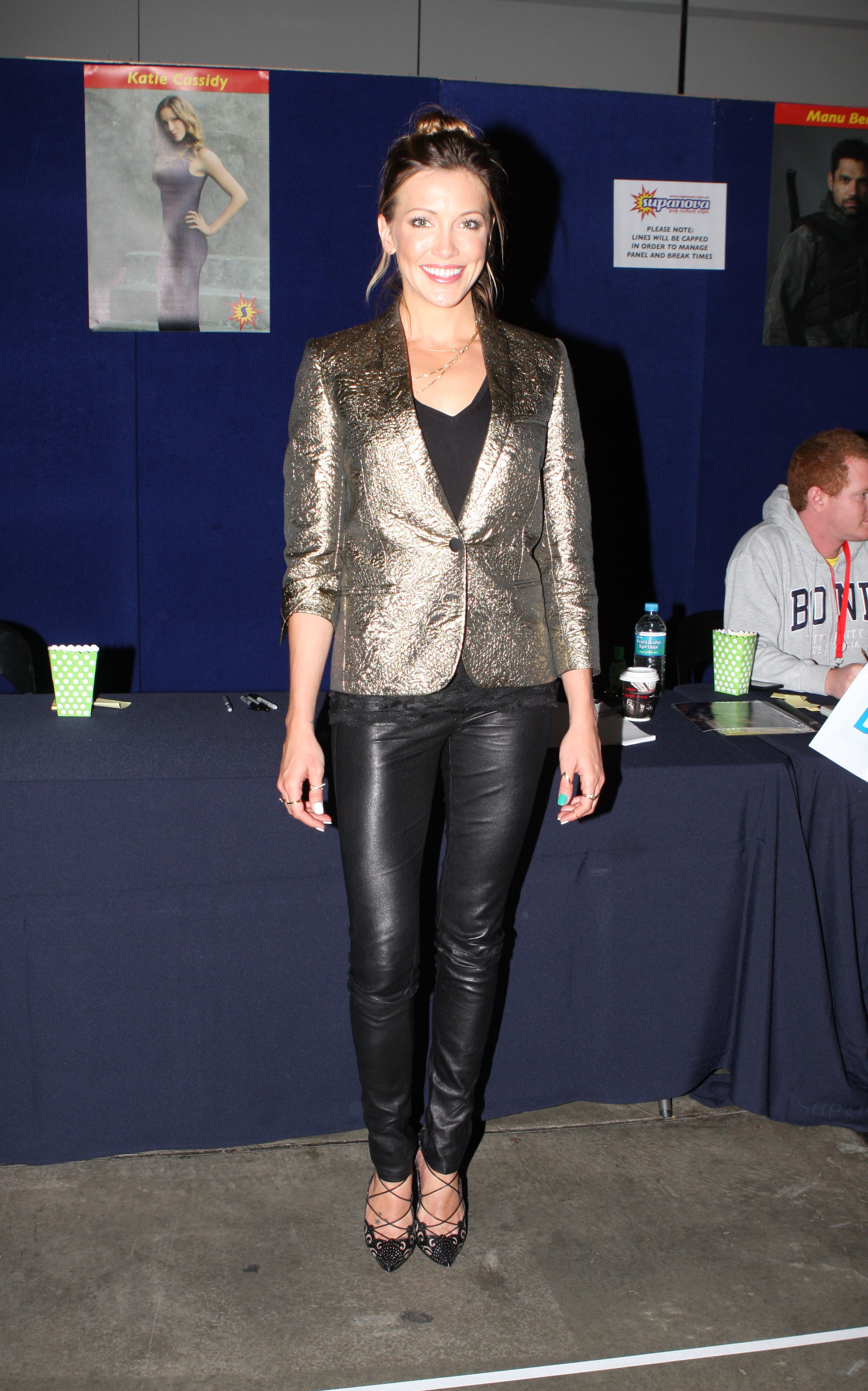 Katie Cassidy at Supanova Pop Culture 2014